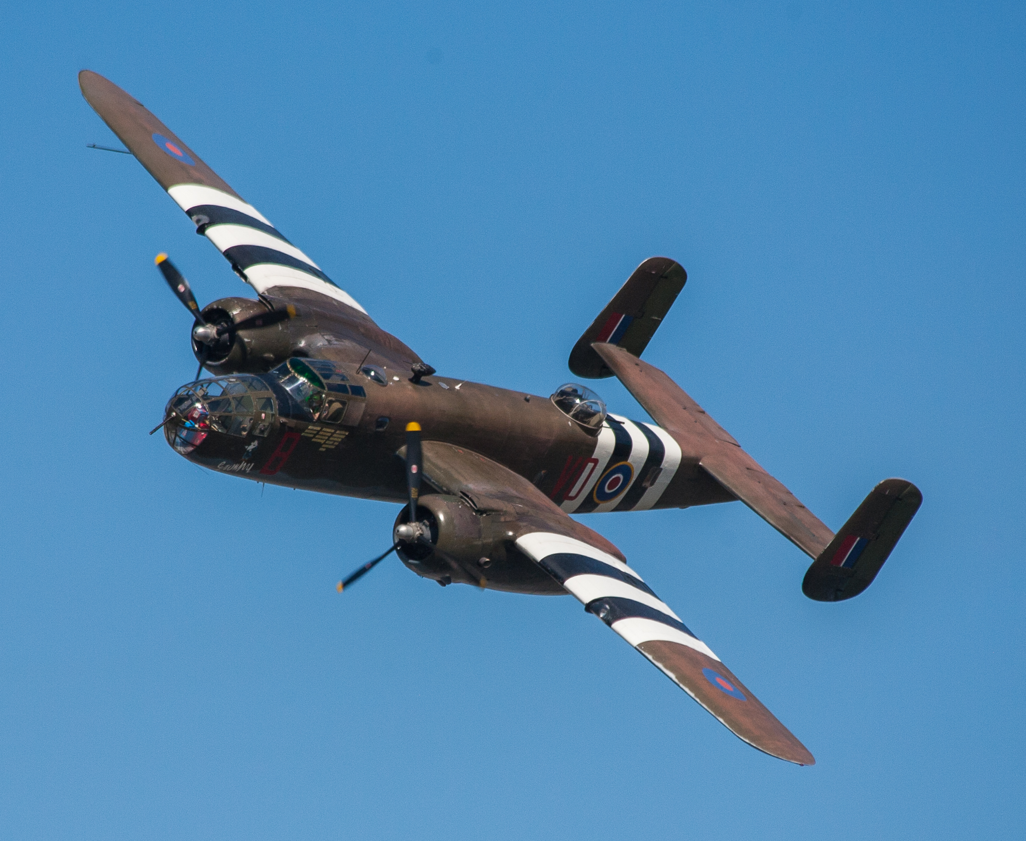 I had a chance to attend the dry run of the 2012 Arctic Thunder air show at Elmendorf AFB, Anchorage, Alaska, in July 2012. This wasn't the same as the actual airshow but it was a lot less crowded - and the weather was so much better too! Nice mix of aircraft in both flying performances and on static display - from WW II B-25s, USAF F-22 Raptor Demo Team, the F-16 Thunderbirds, and several souped up aerobatic aircraft - what a gorgeous day - and my hearing is finally getting back to normal!